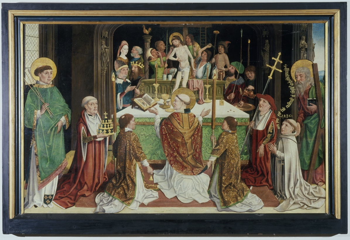 Meister der Heiligen Sippe der Jüngere, Gregorsmesse, Holz, 1486 (Utrecht, Museum Catharijneconvent, 33, rba_c002933).